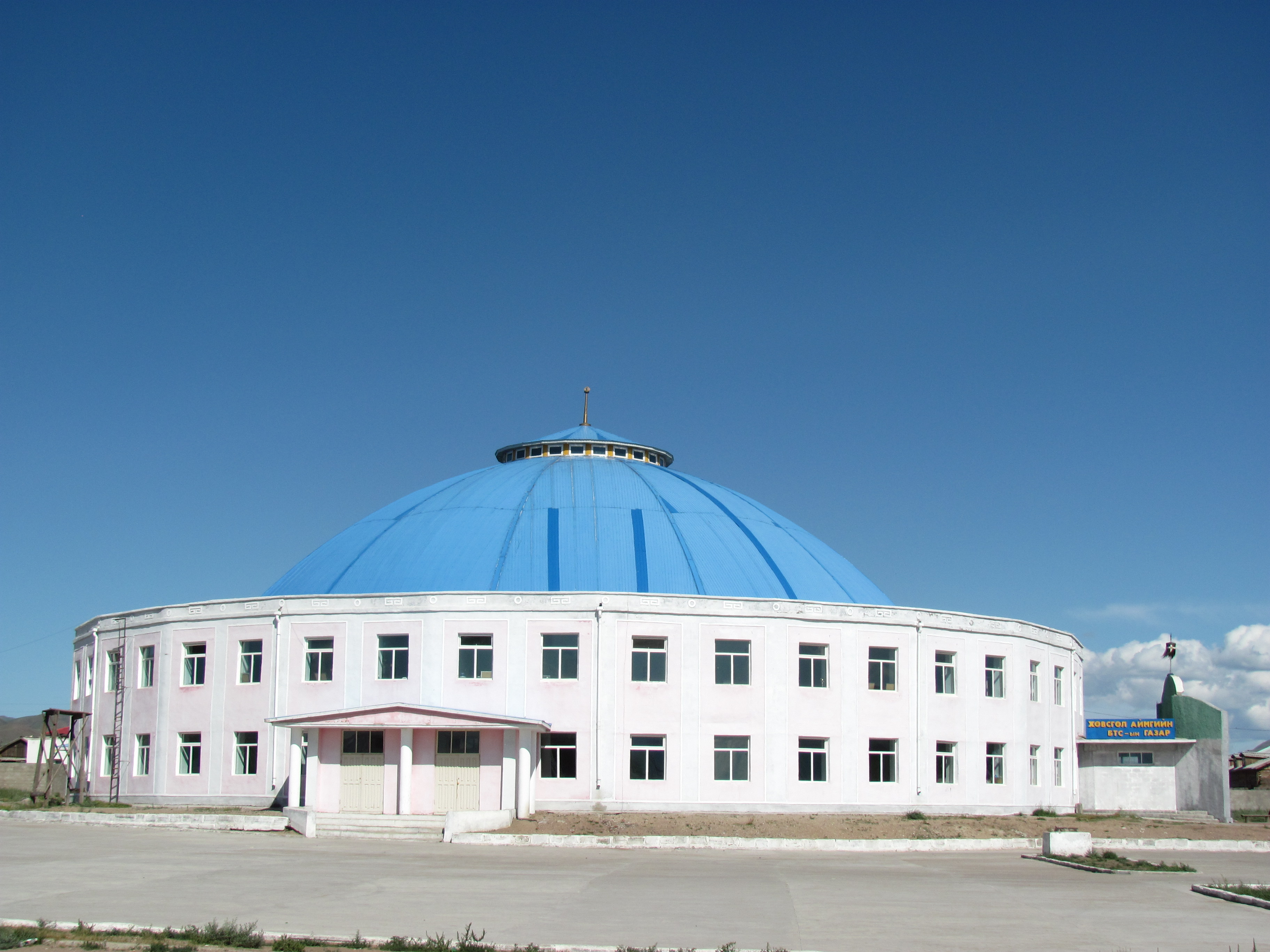 Stadium, Mörön, Mongolia.